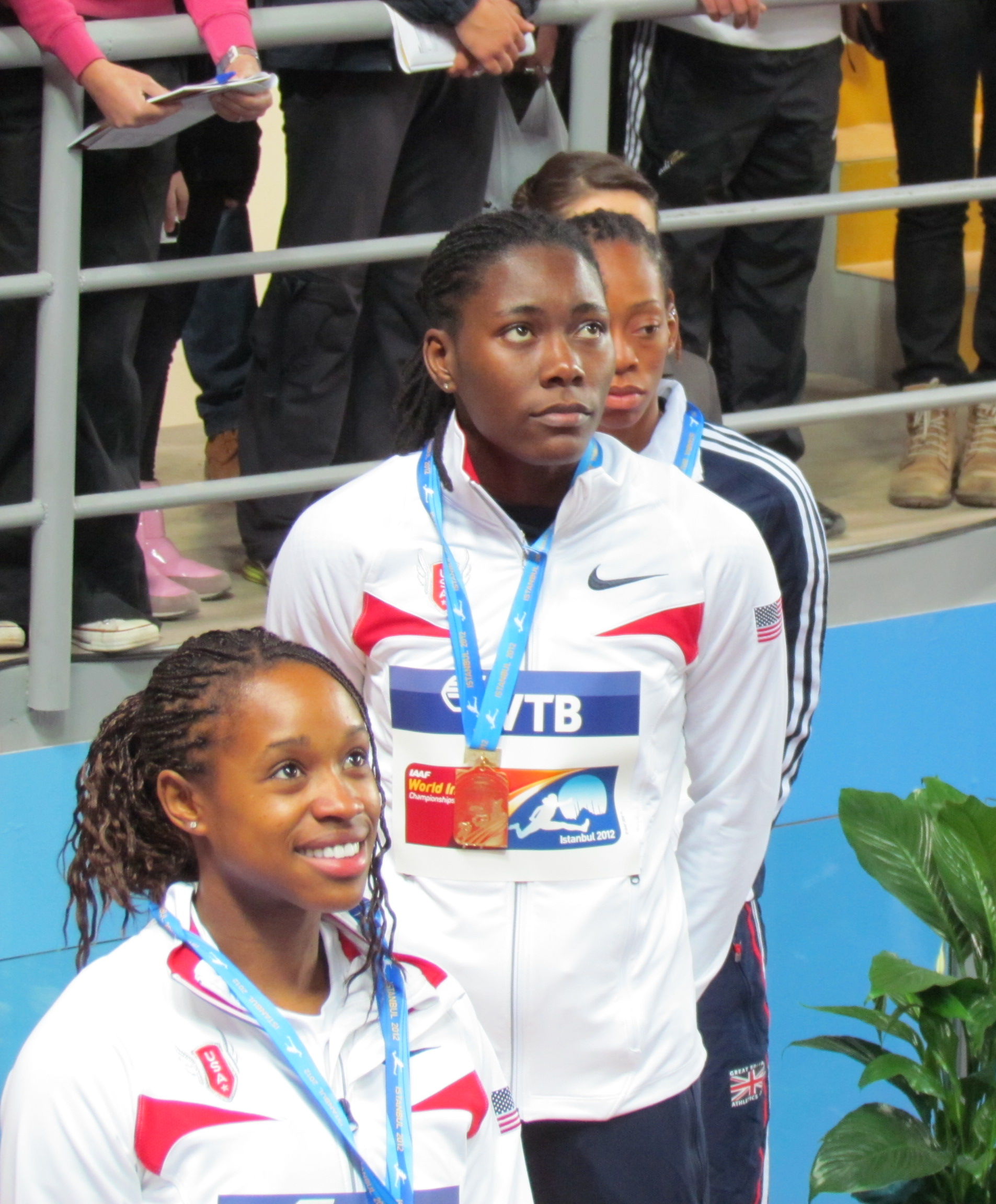 The 2012 IAAF World Indoor Championships in Athletics was the 14th edition of the global-level indoor track and field competition and was held between March 9–11, 2012 at the Ataköy Athletics Arena in Istanbul, Turkey. Janay DeLoach, Brittney Reese, Shara Proctor